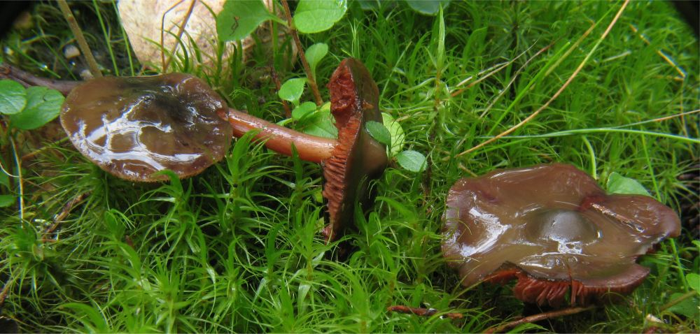 Phaeocollybia festiva Location: Västerbotten, Sweden For more information about this, see the observation page at Mushroom Observer.